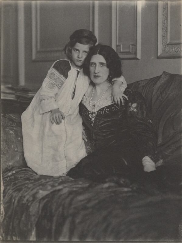 Julian Vinogradoff (née Morrell); Lady Ottoline Morrell by Cavendish Morton platinum print, circa 1911 8 1/8 in. x 6 1/8 in. (202 mm x 156 mm) Given by the photographer's son, Cavendish Morton, 1991